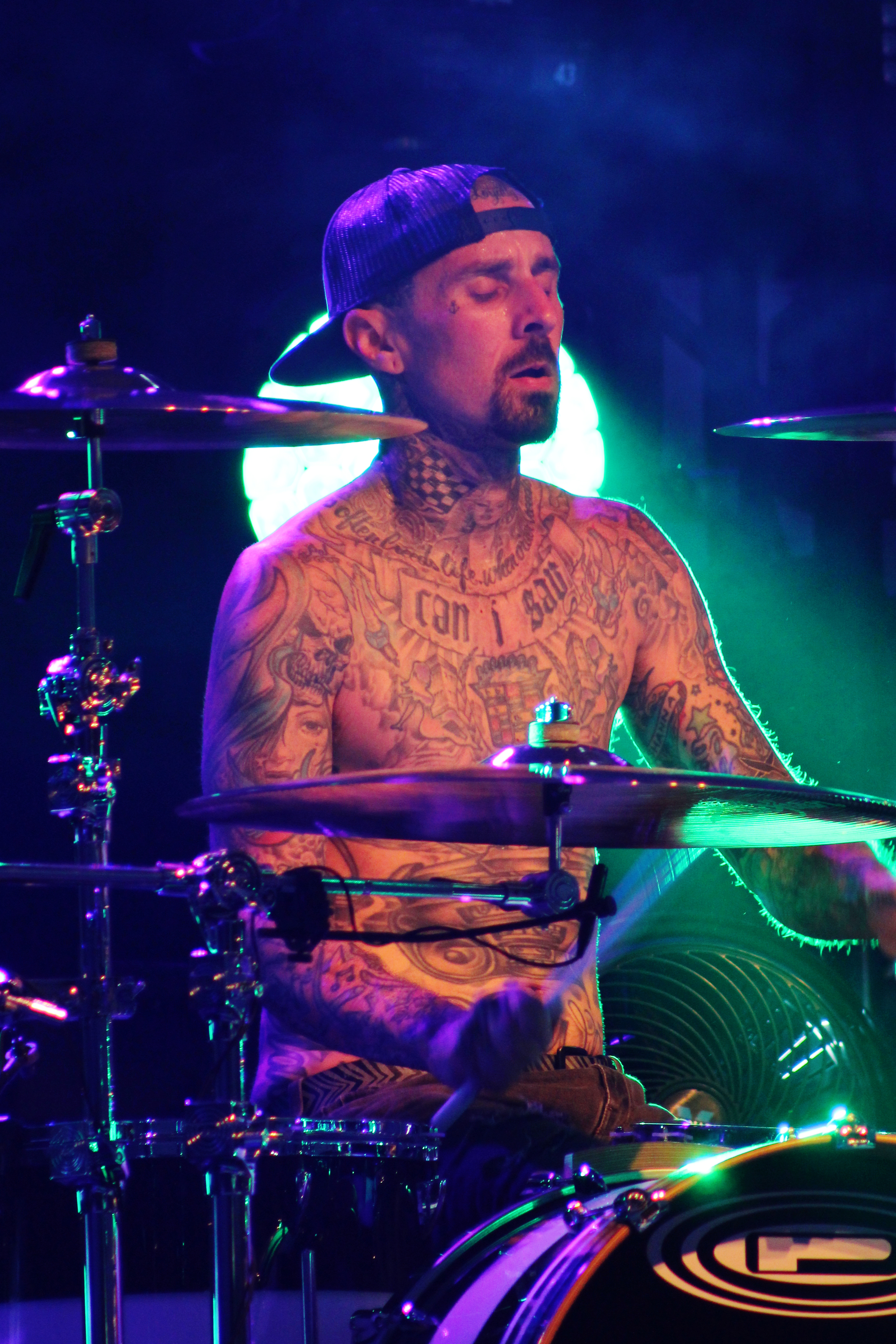 Travis Barker performing in 2016 with Blink-182